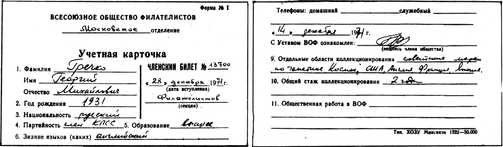 The registration form of the All-Union society of philatelists of G.M.Grechko